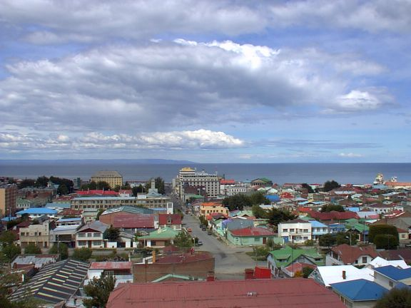 Punta Arenas, Chile.